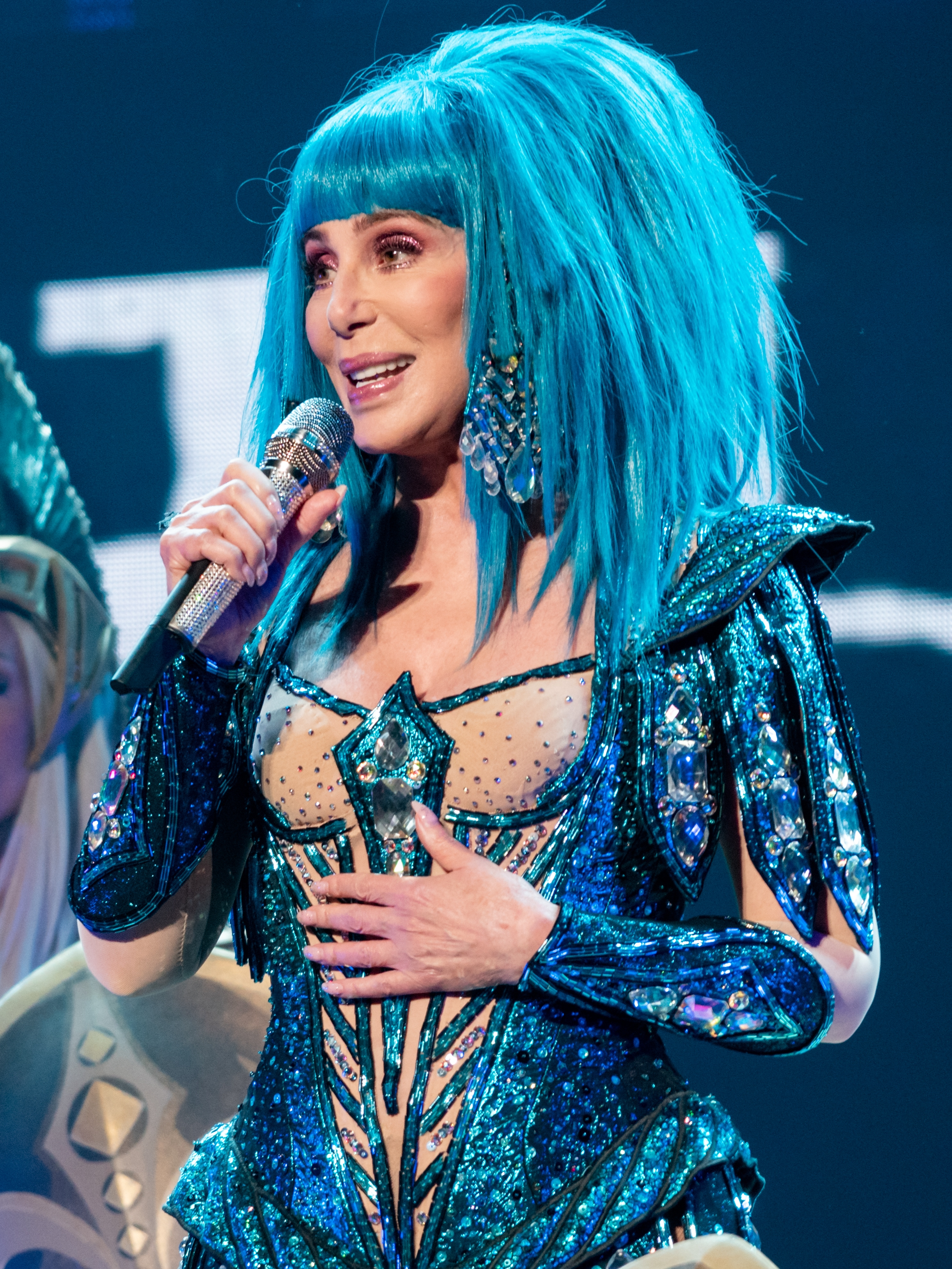 Cher performing in London during her Here We Go Again Tour in October 2019